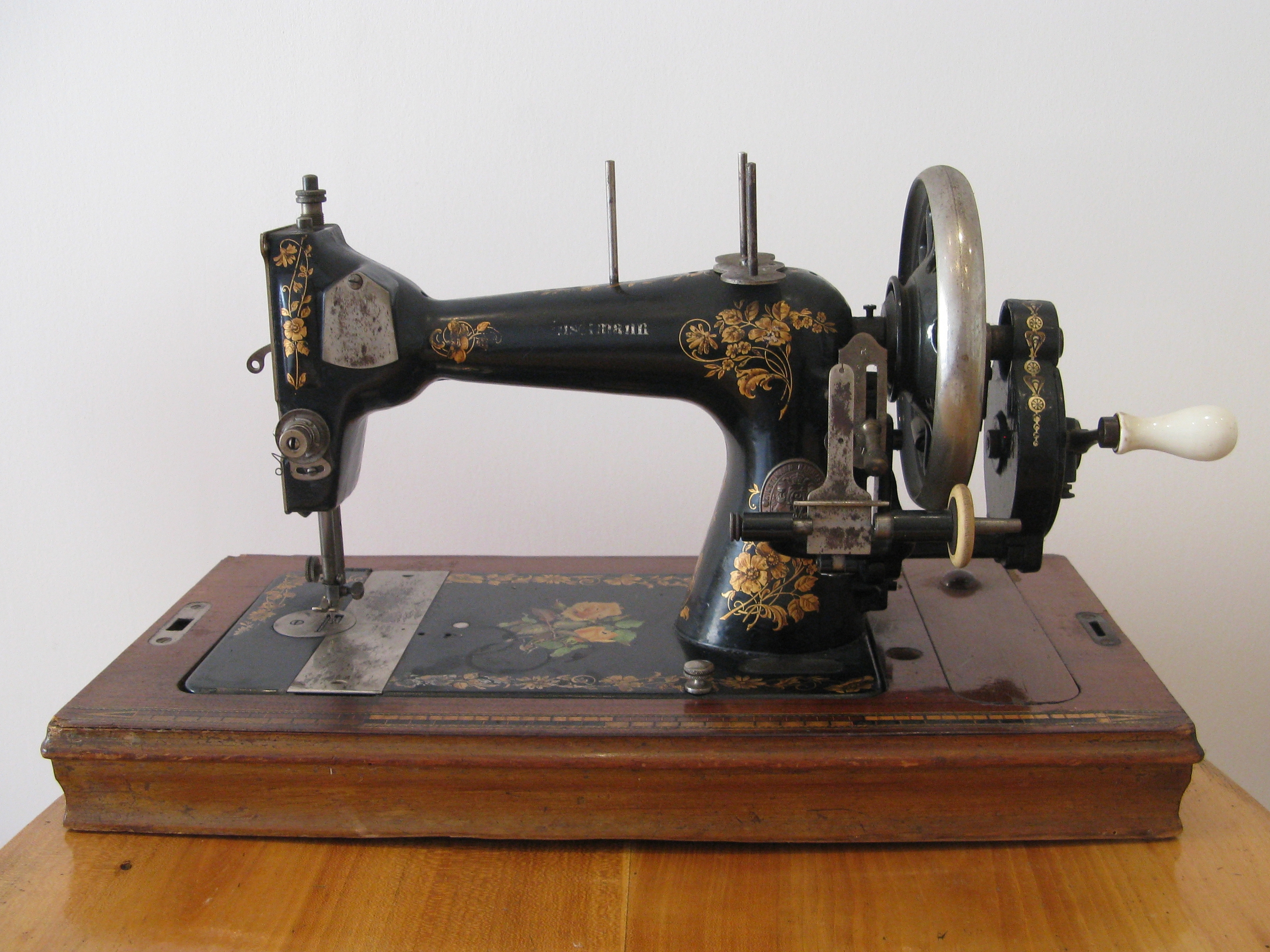 German Winselmann sewing machine, probably made before 1919.